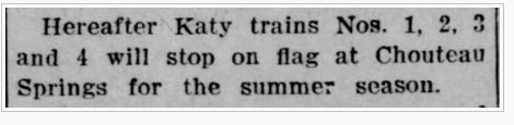 Newspaper announcement of the Katy train stops in Chouteau Springs, Missouri in 1907